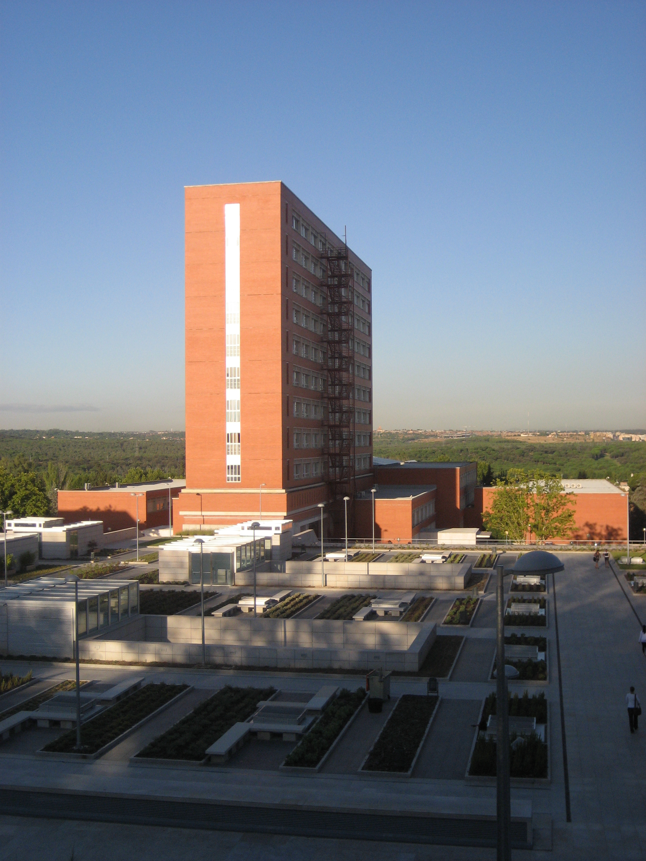 Photo of the Geography-&-History faculty of the Complutense University of Madrid (Spain).